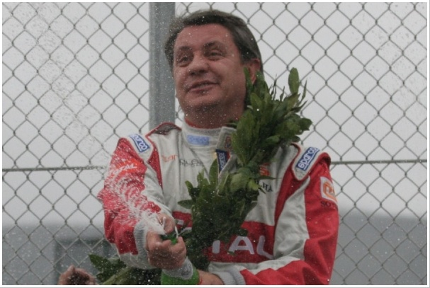 Wining Eduardo Veiga